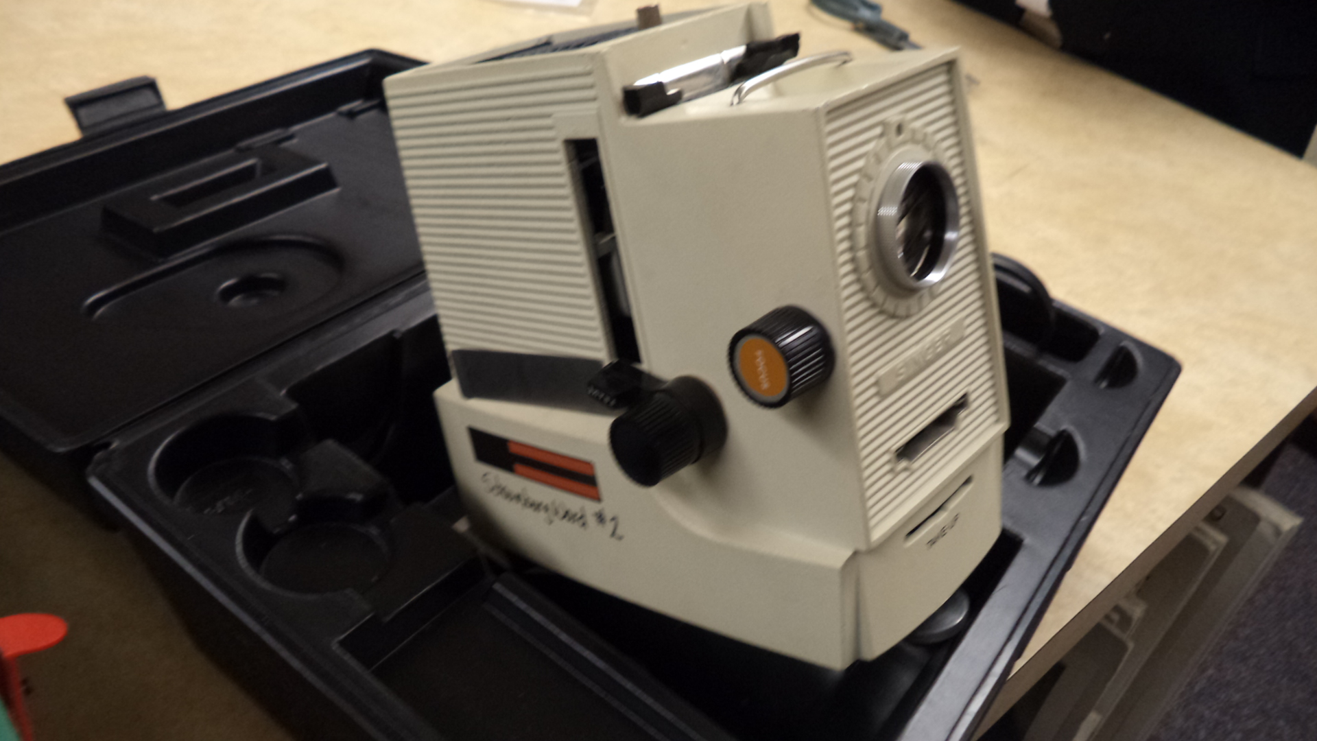 A film strip projector at a chapel of The Church of Jesus Christ of Latter-day saints